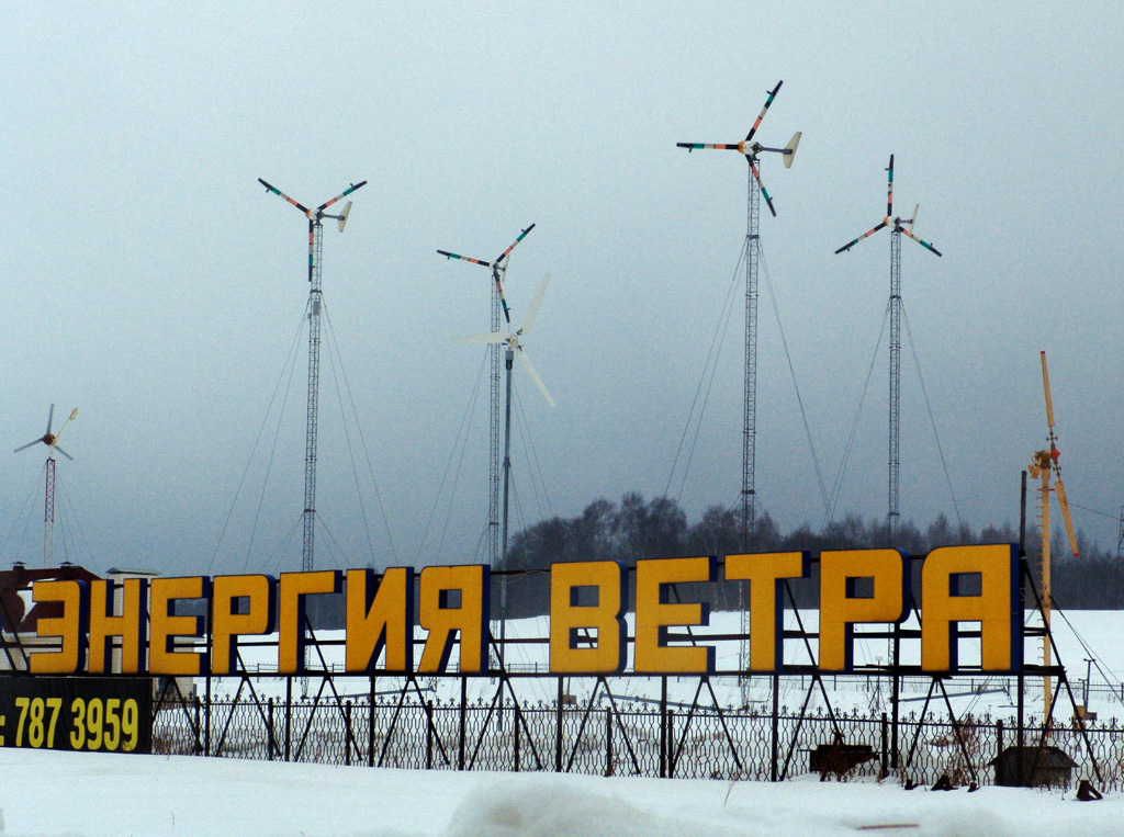 “Wind power stations providing main and emergency power to areas located far from power lines. Solnechnogorsk region”. Wind power stations providing main and emergency power to areas located far from power lines. Solnechnogorsk region